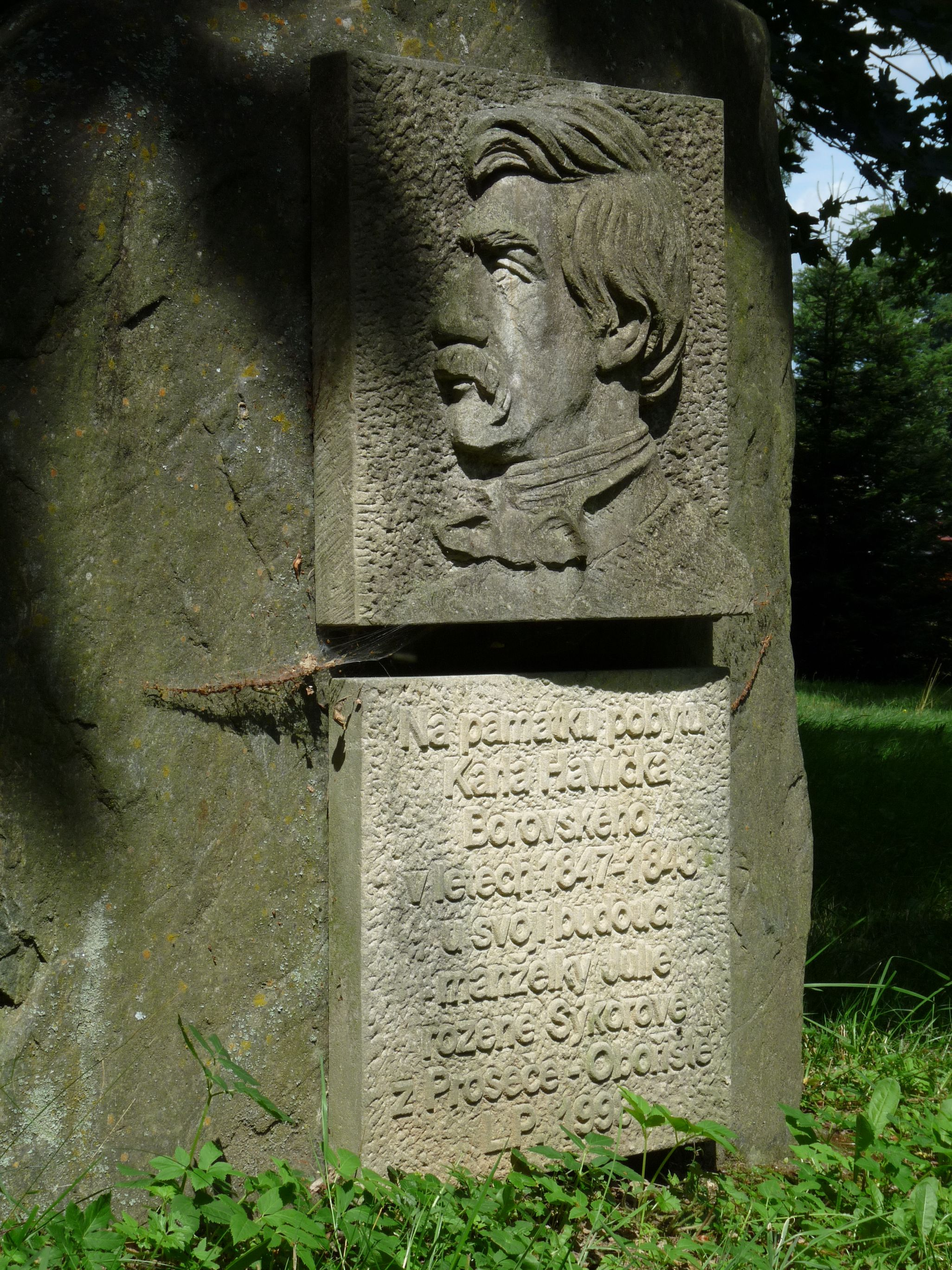 Commemorative plaque at the famous oak-tree in the village of Proseč-Obořiště, Pelhřimov District, Czech Republic.